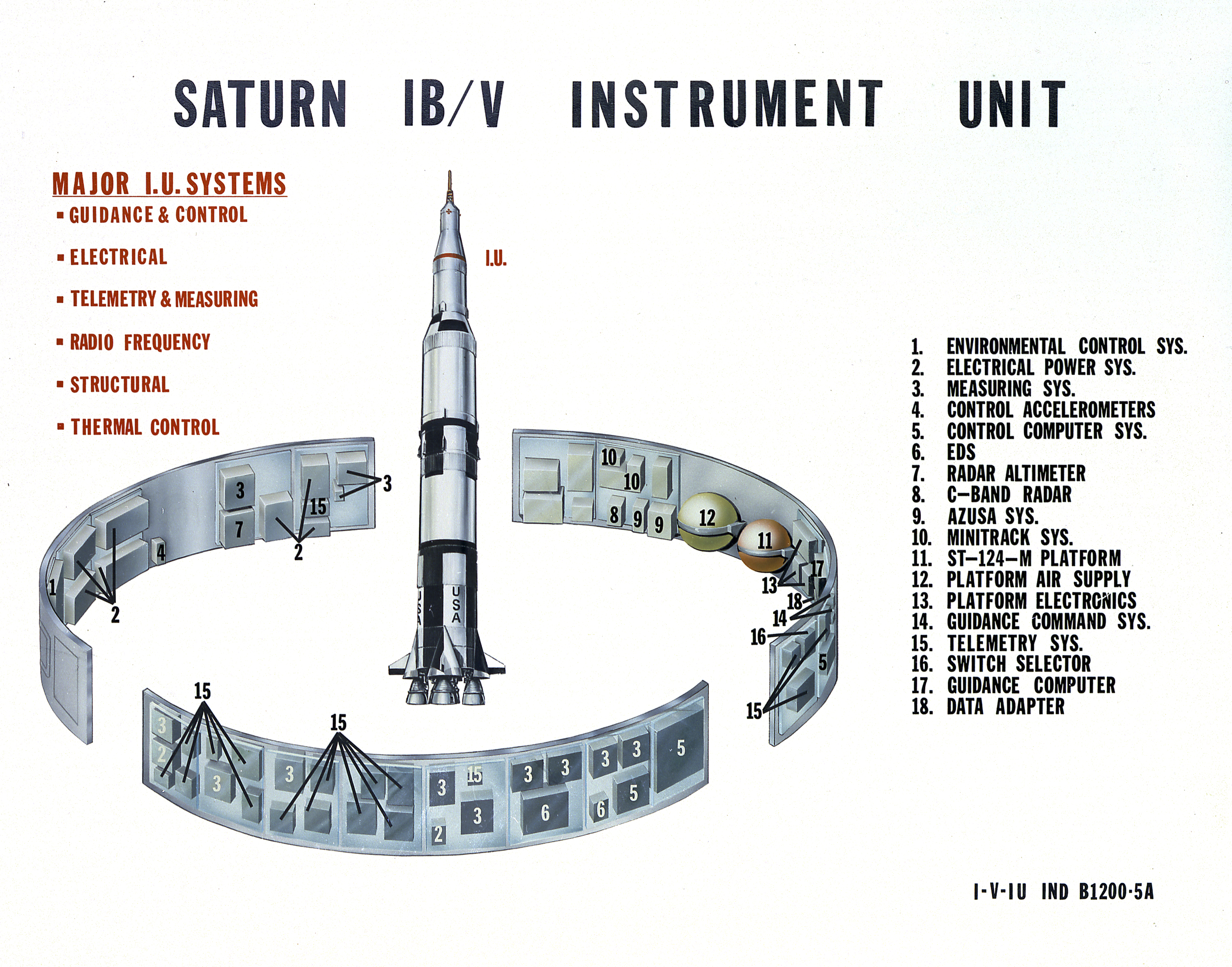 This undated chart provides a description of the Saturn IB and Saturn V's Instrument Unit (IU) and its major components. Designed by NASA at the Marshall Space Flight Center (MSFC), the Instrument Unit, sandwiched between the S-IVB stage and the Apollo spacecraft, served as the Saturn's "nerve center" providing guidance and control, command and sequence of vehicle functions, telemetry, and environmental control.